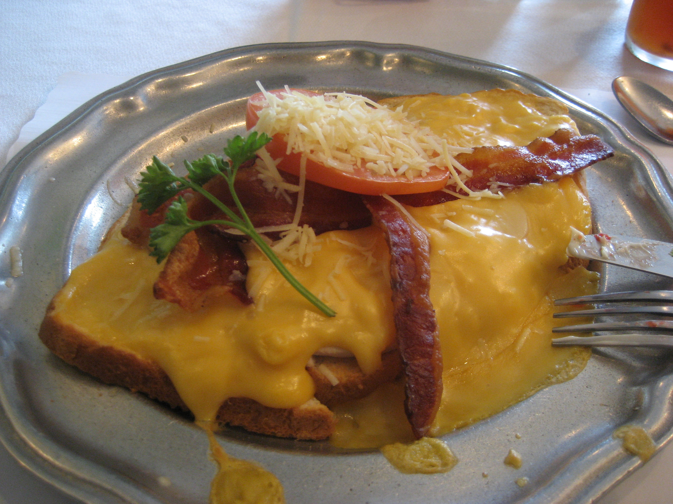 Hot Brown sandwich from Kurtz Restaurant, Bardstown, Kentucky, USA.